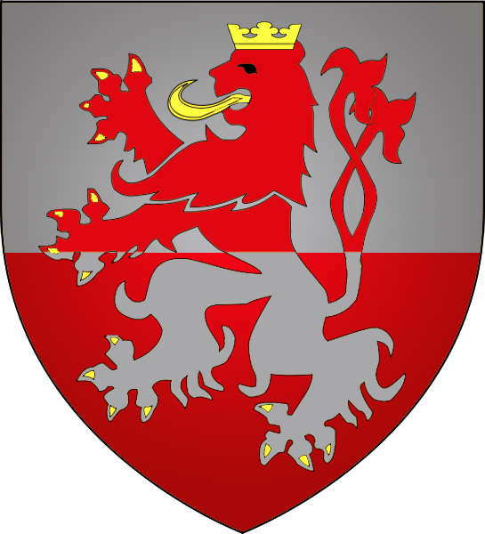 Coat of arms of the municipality of Bertrange, Luxembourg